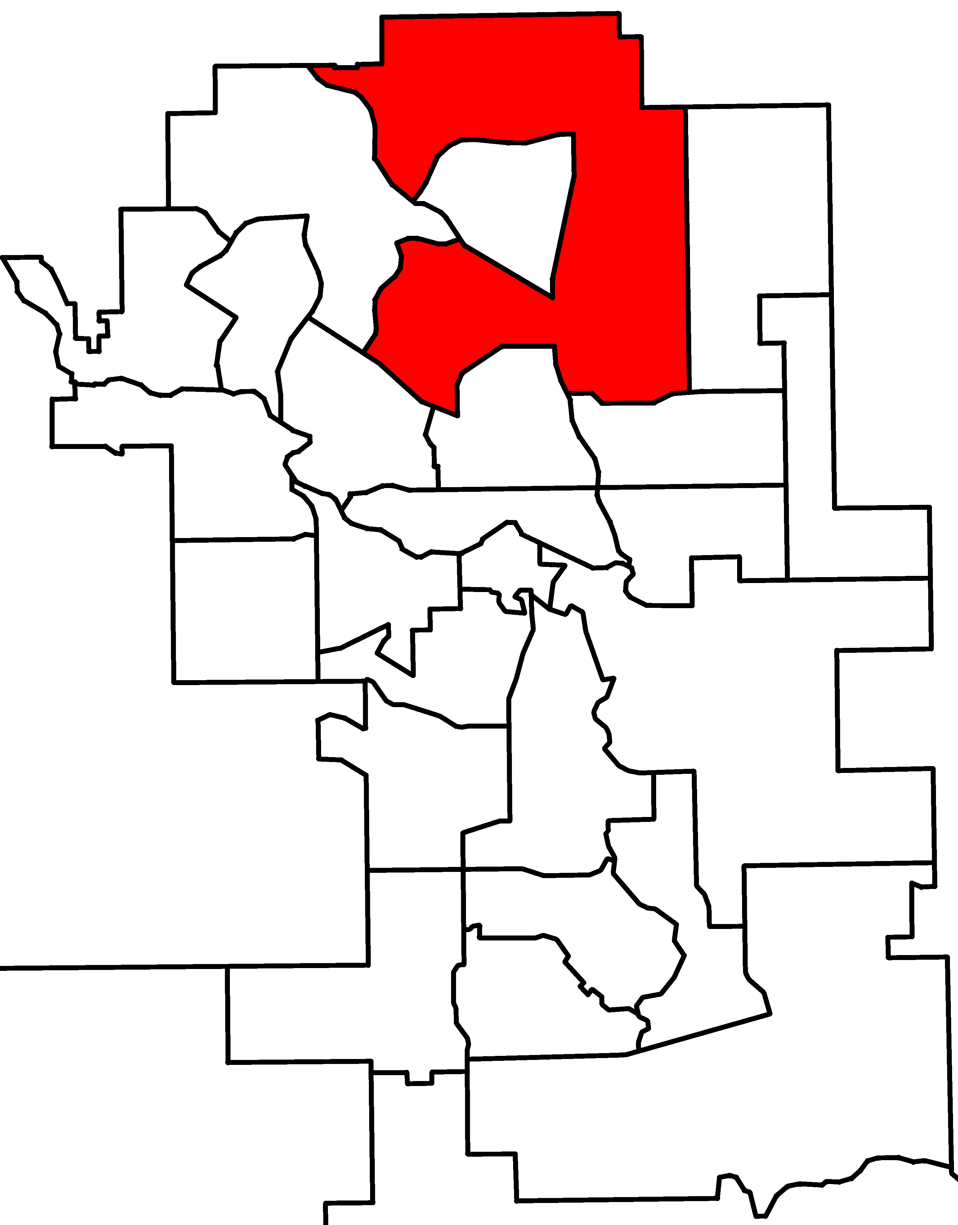 A map of Alberta provincial electoral districts, effective 2010, in the Calgary area. Calgary-Mackay-Nose Hill is highlighted in red.